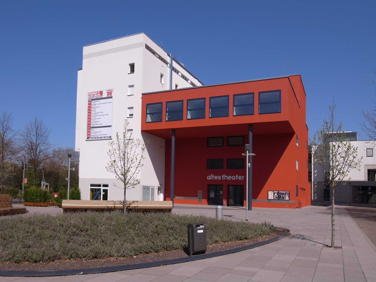 Dessau, Altes Theater